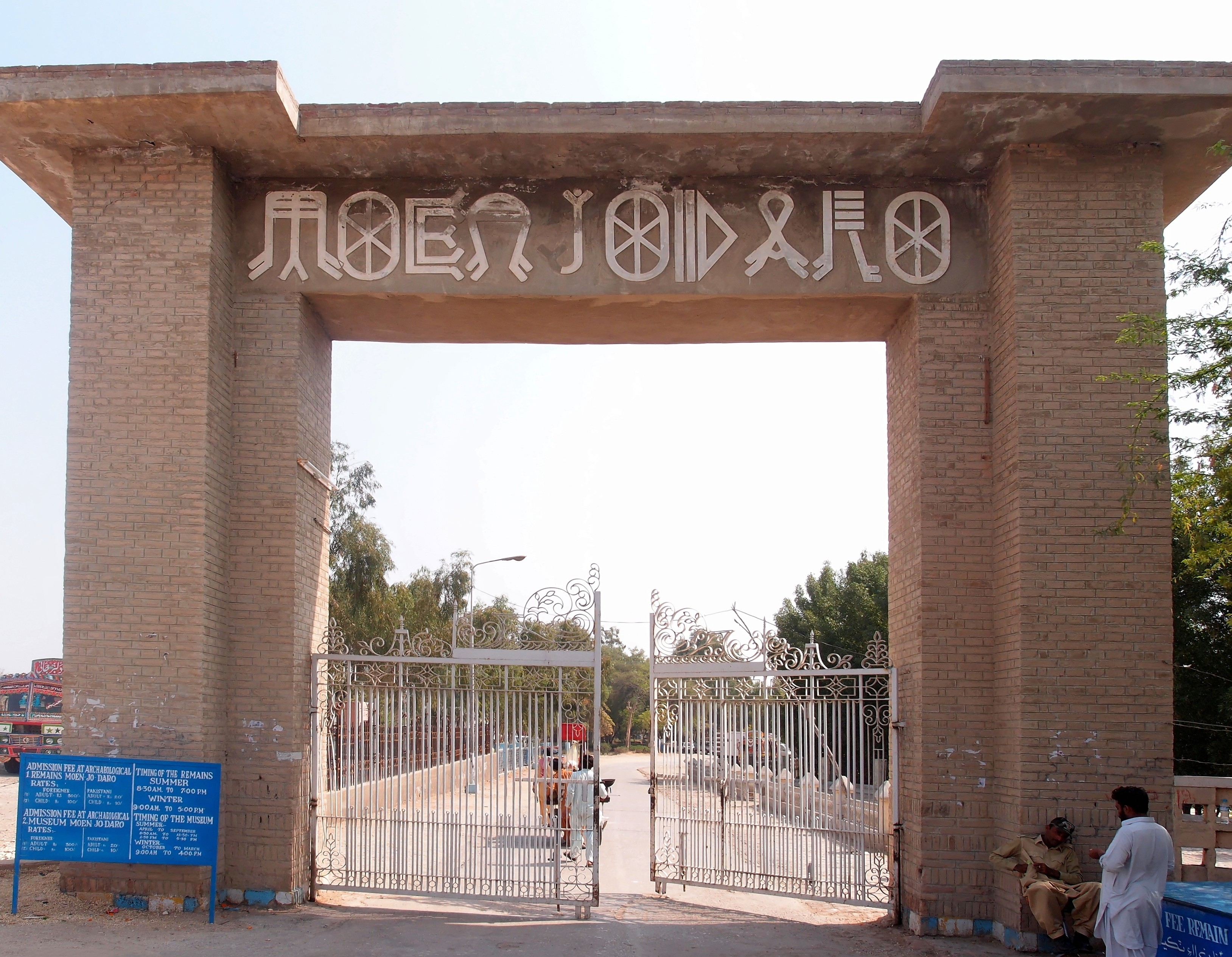 Modern main entrance gate of the 5,000 old archeological site of Mohenjo-daro. Mohenjo-daro is one of the world's earliest major urban settlements, contemporaneous with the civilizations of ancient Egypt, Mesopotamia, and Crete.